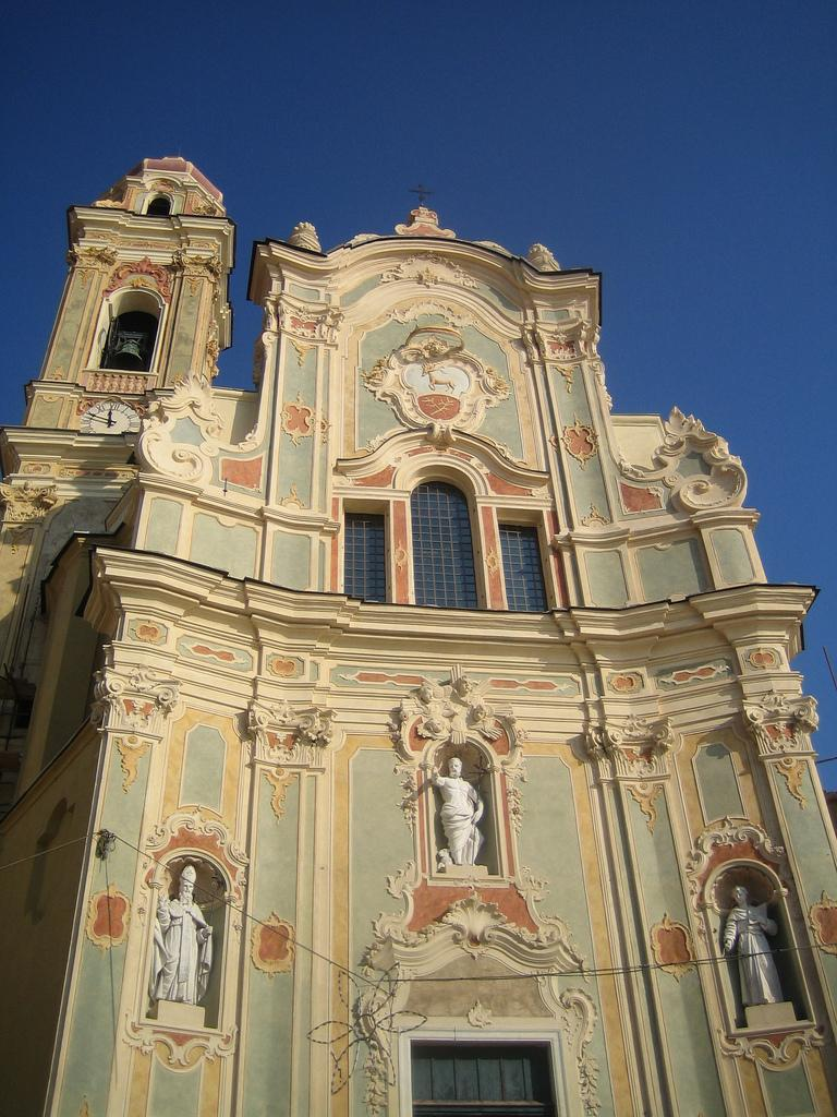 cathedral in cervo, liguria italy